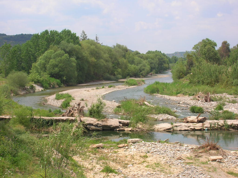 River Evrotas, Laconia, Greece. River bed at the city of Sparta (Sparti).